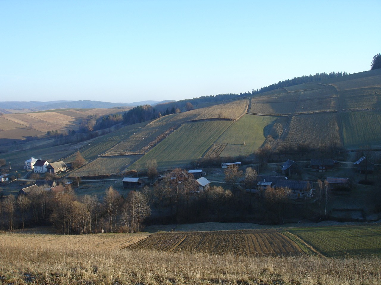 View from the road DK28, cultivated land in Tyrawa Wołoska, january 2007